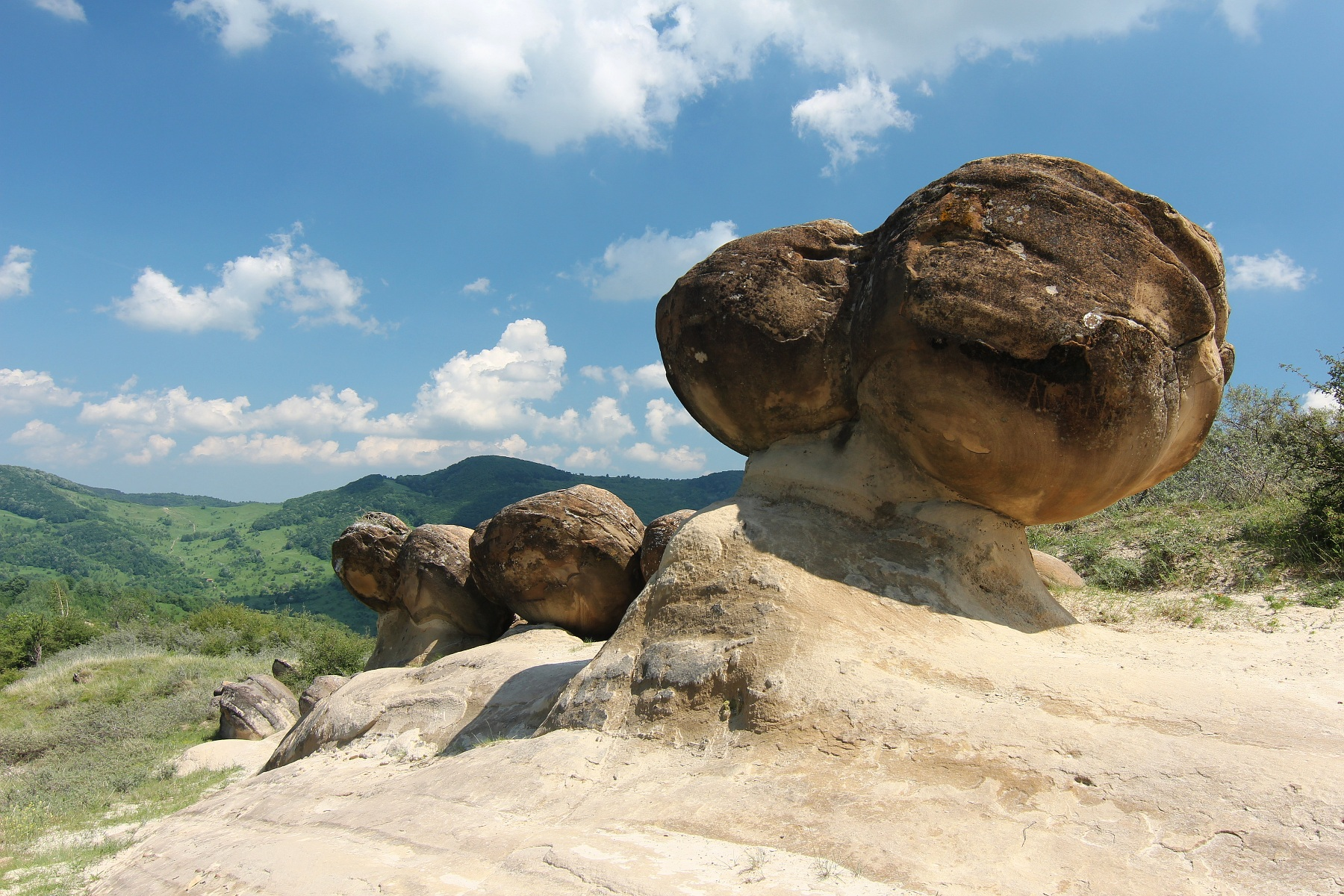 Lanscapes in the Buzăului Mountains, Romania: trovant at Ulmeț